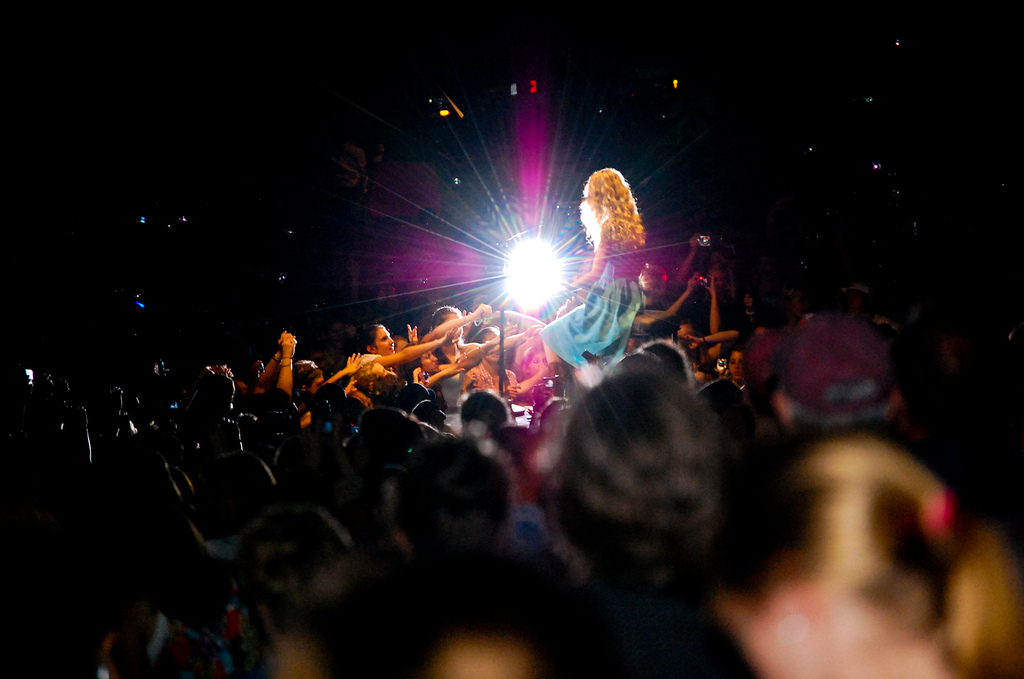 Taylor Swift